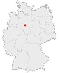 Position of Hannover in Germany